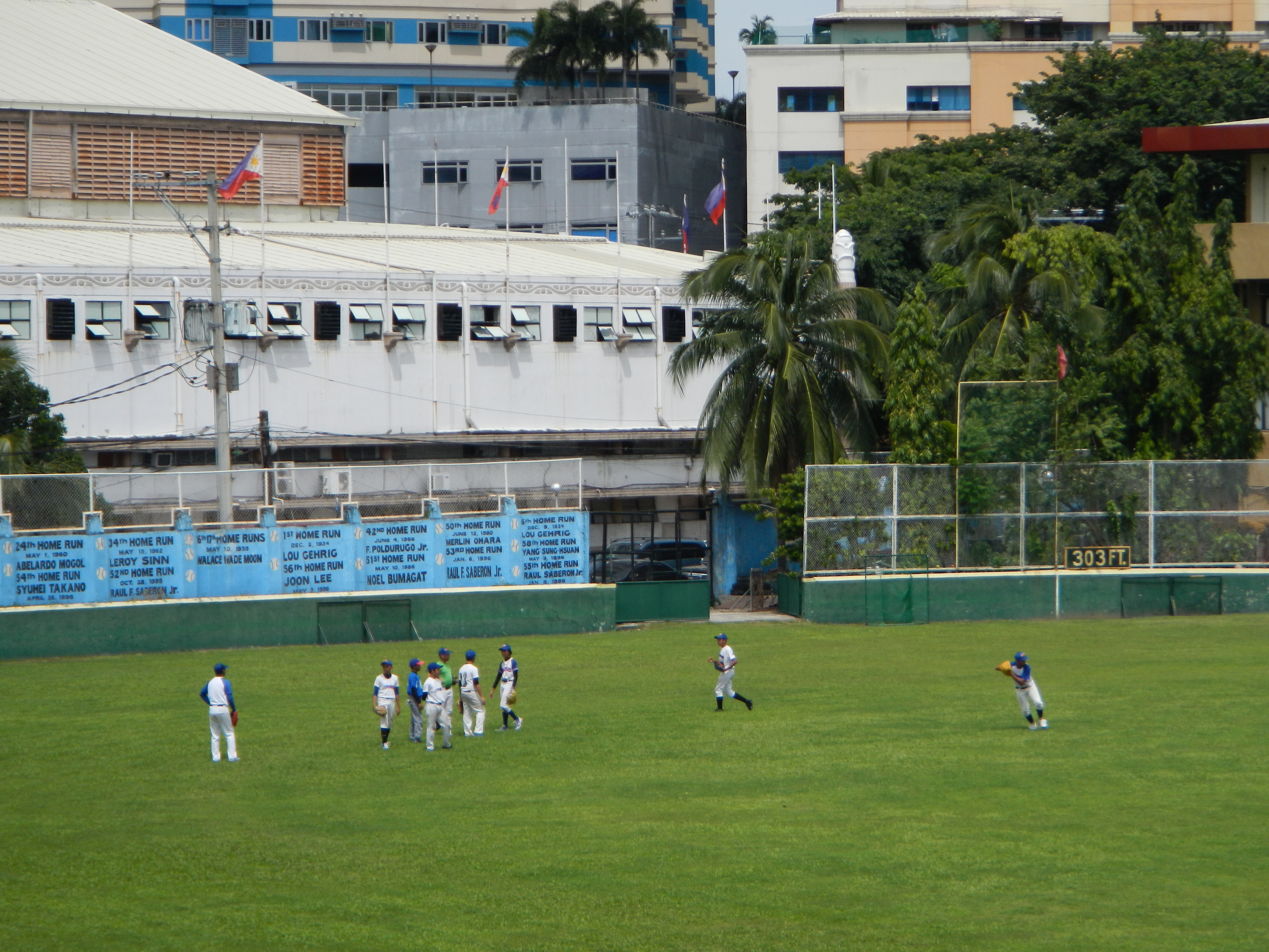 Rizal Memorial Stadium[1] The Rizal Memorial Track and Football Stadium, simply known as the Rizal Memorial Stadium since it is the main stadium within the Rizal Memorial Sports Complex[2], is the national stadium of the Philippines. It served as the main stadium of the 1954 Asian Games and the Southeast Asian Games on three occasions. Prior to its renovation in 2011, the stadium was badly deteriorated and was unfit for international matches. The stadium is also officially the home of the Philippines national football team. It is owned by the Philippine Sports Commission[3]